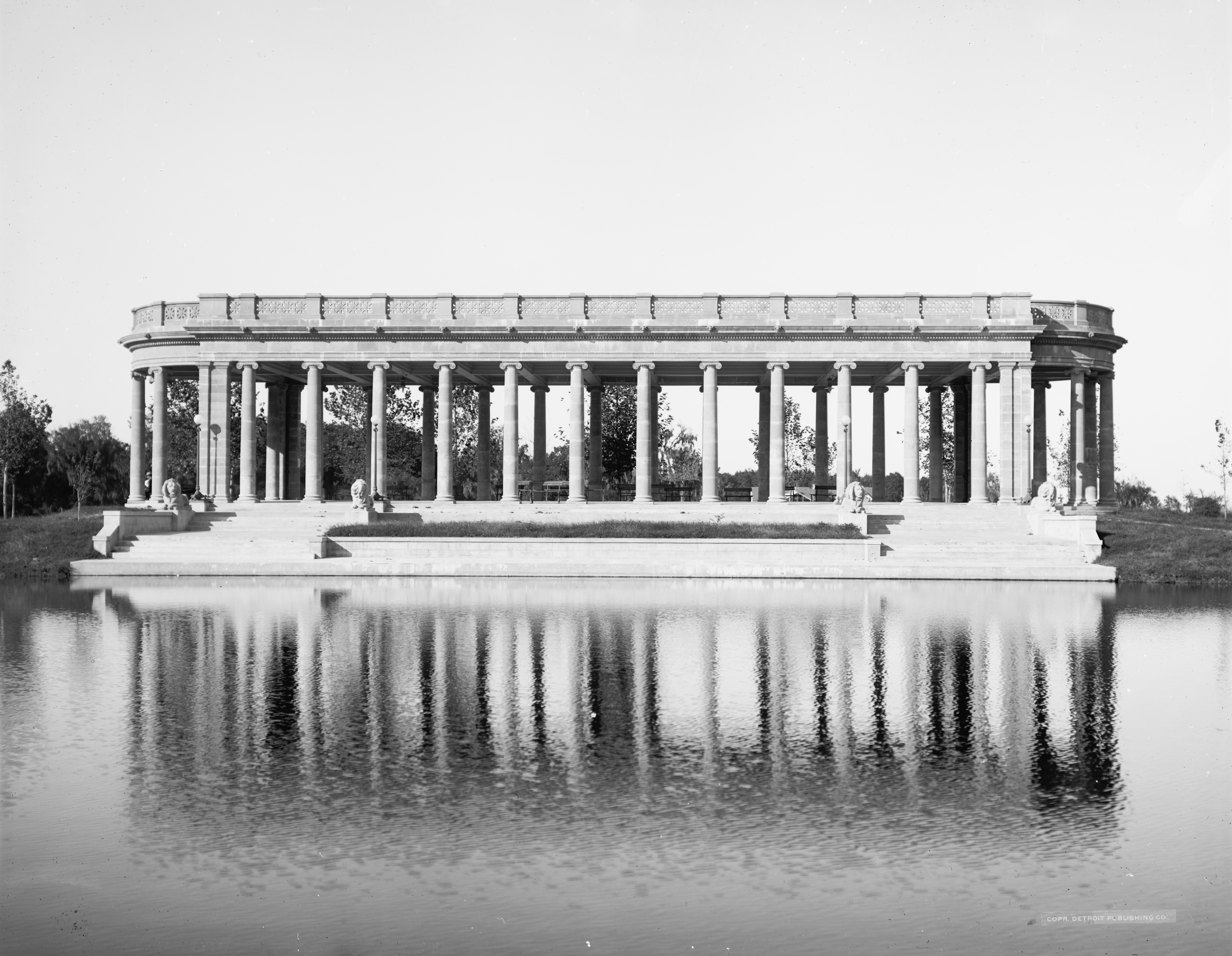 New Orleans: City Park Peristyle, soon after it was completed in 1907.